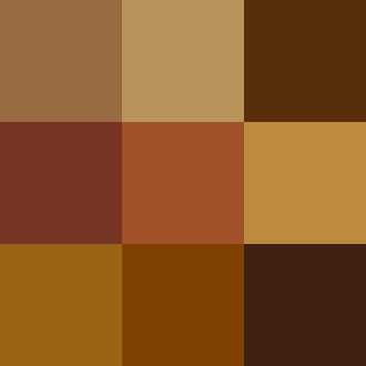 Shades of brown